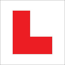 L-sign used for "øvelseskjøring" in Norway. Only in Norway!